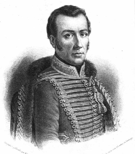 Posthumous portrait of the Chilean general José Miguel Carrera